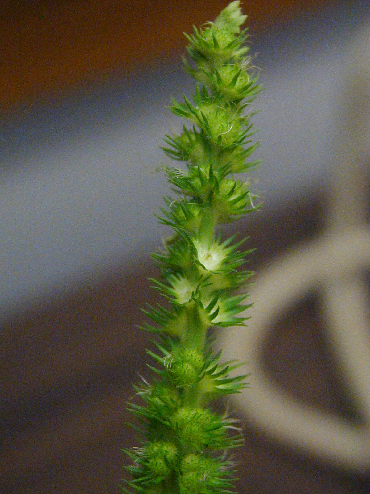 Acalypha ostryifolia, female inflorescence